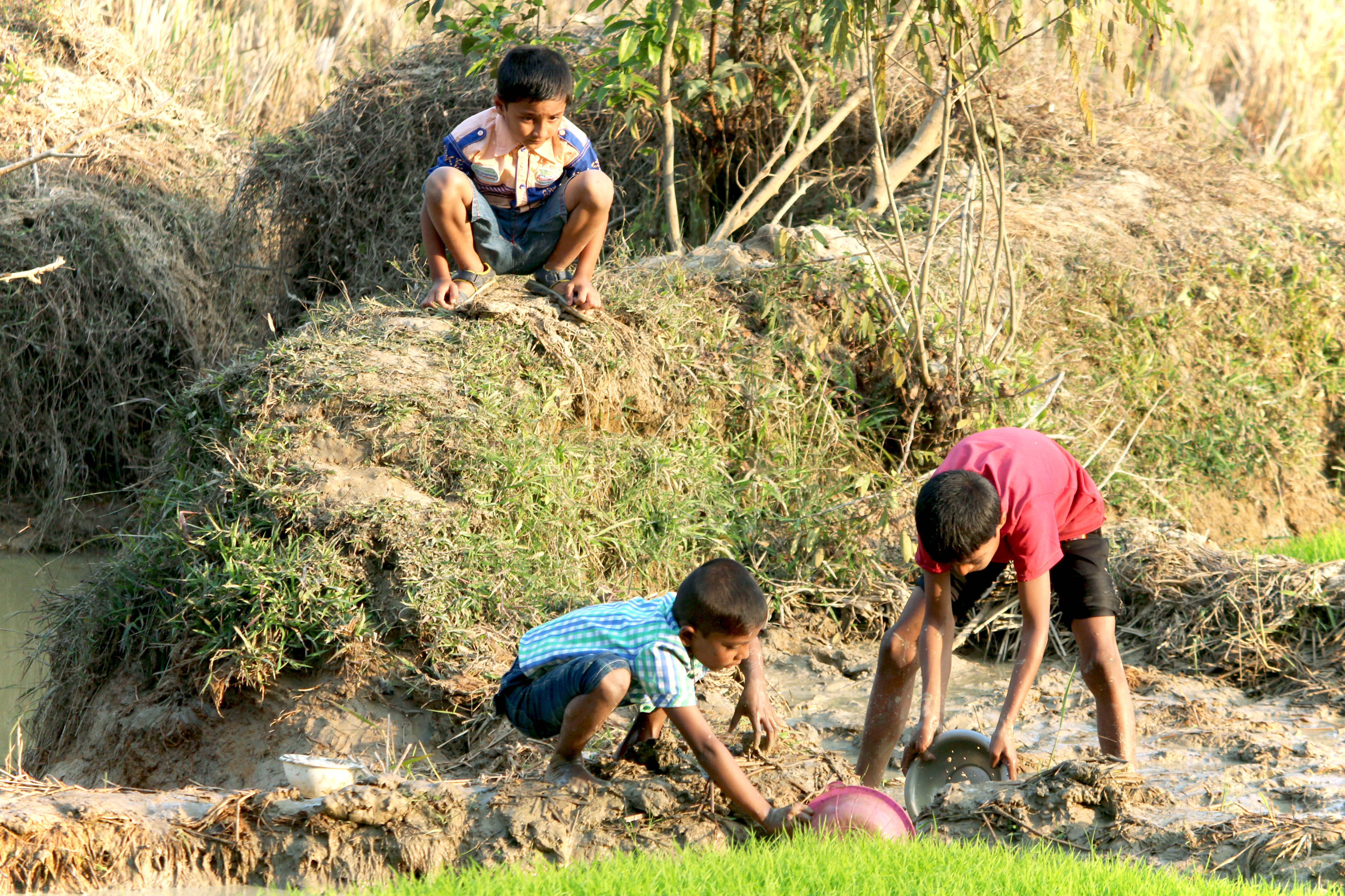 Childhood